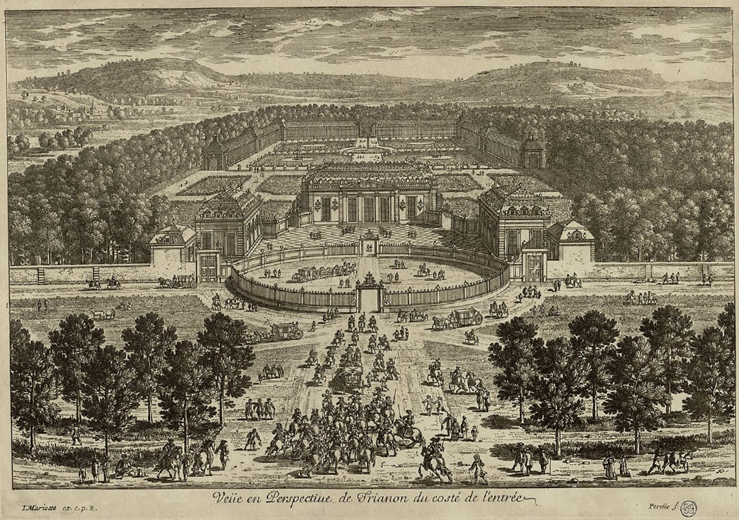 Vue en perspective du Trianon de Porcelaine, du côté de l'entrée